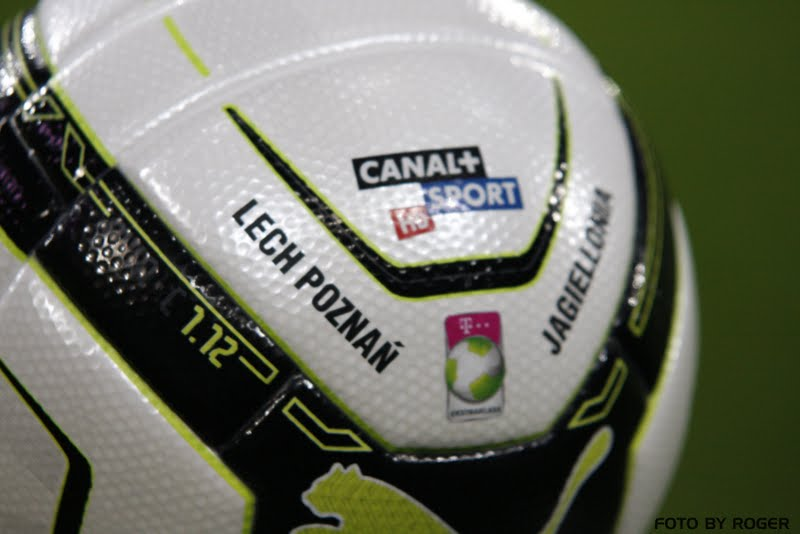 Puma match ball in Poland.